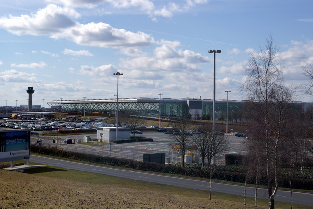 Stansted Airport Viewed from the embankment between the airport and Waltham Hall.